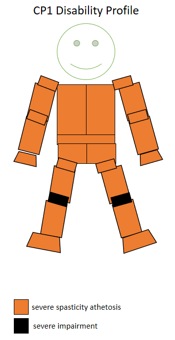 This image descriptions the spasticity athetosis level of a CP1 CP-ISRA classified sports person with cerebral palsy. It was created using information from .